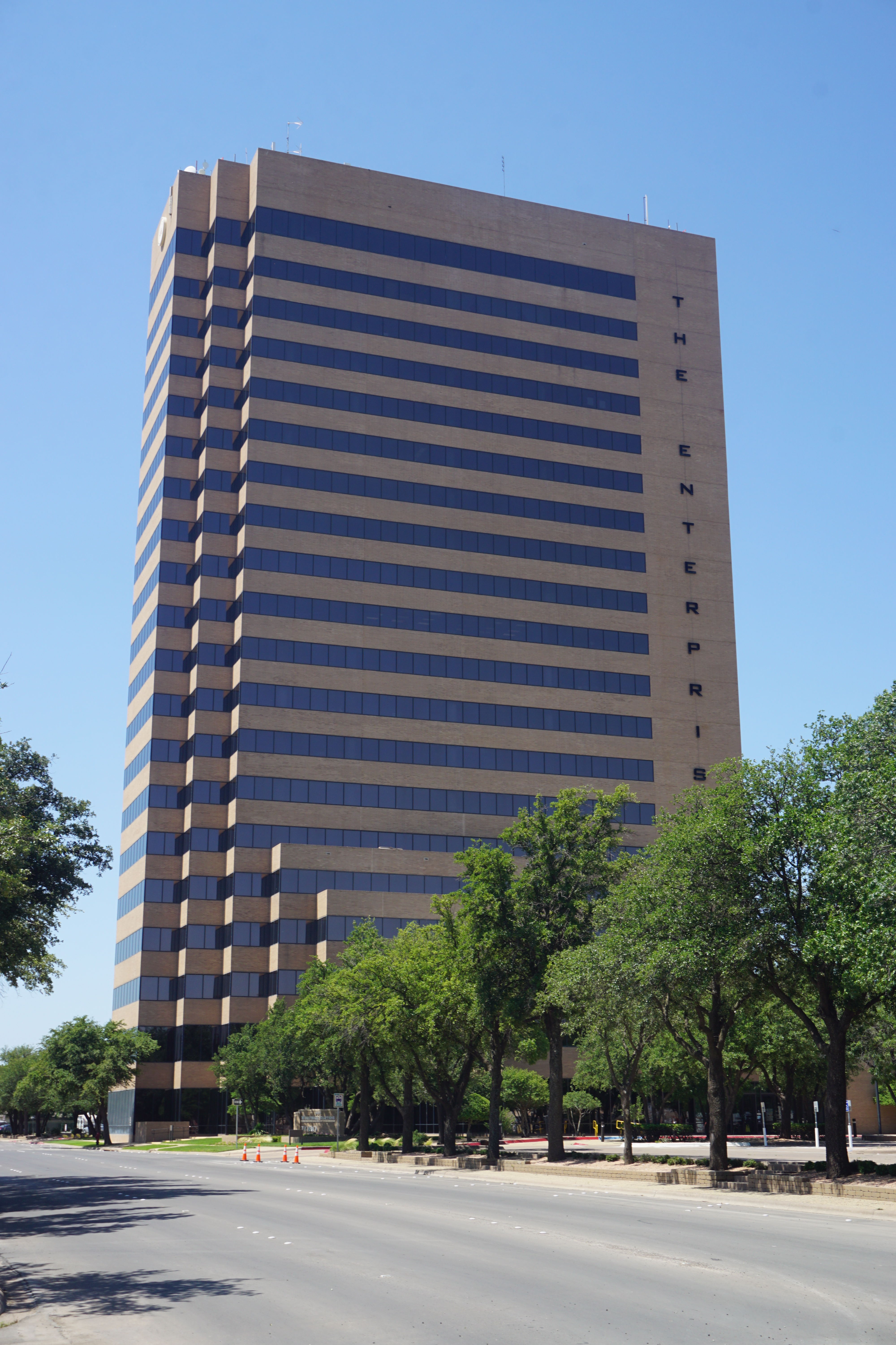 The Enterprise building in Abilene, Texas (United States).